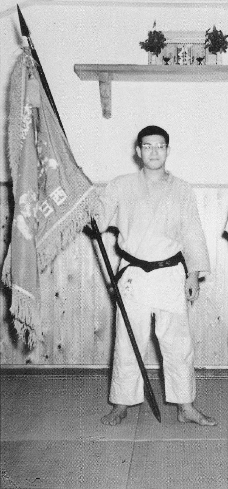 A Japanese judoka, Akio Kaminaga.